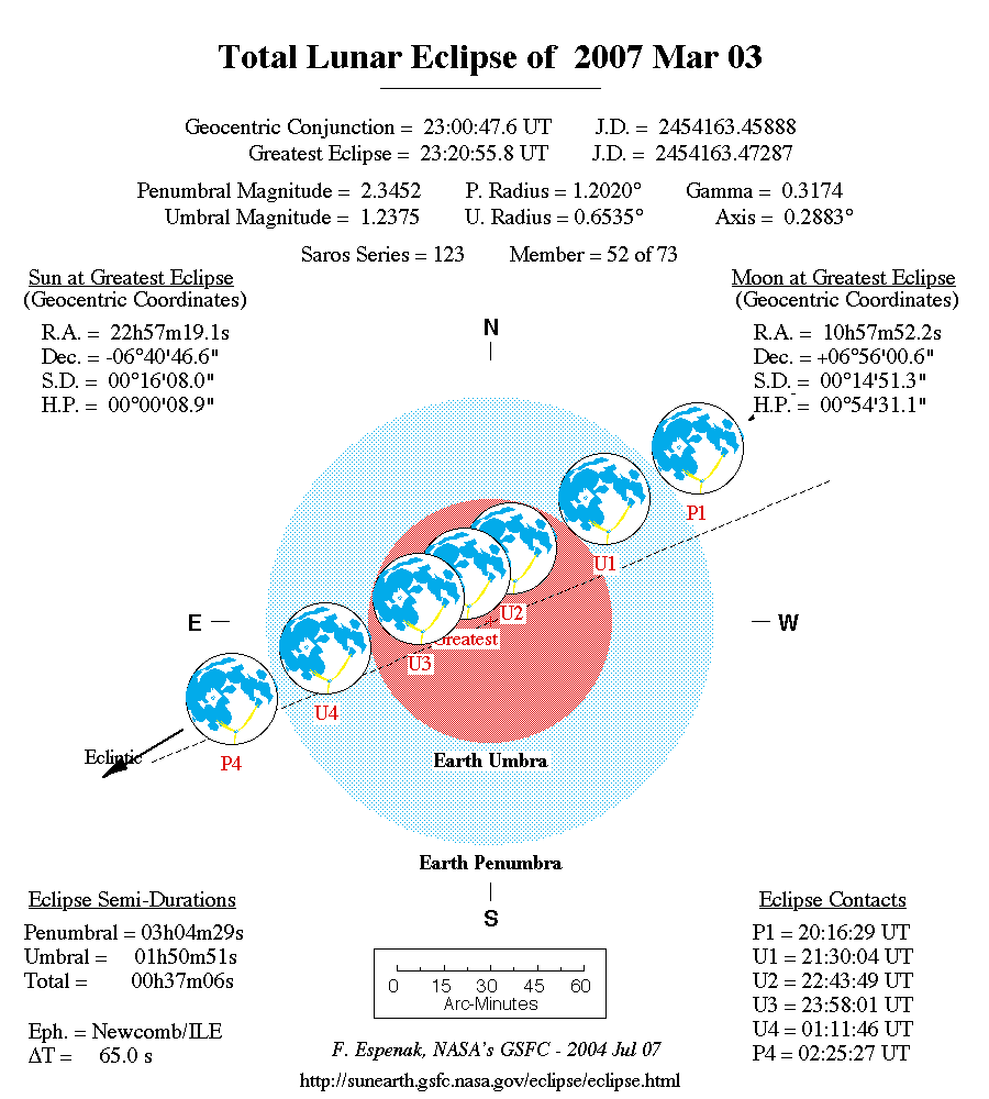 Sketch of the 2007-03-03 lunar eclipse.